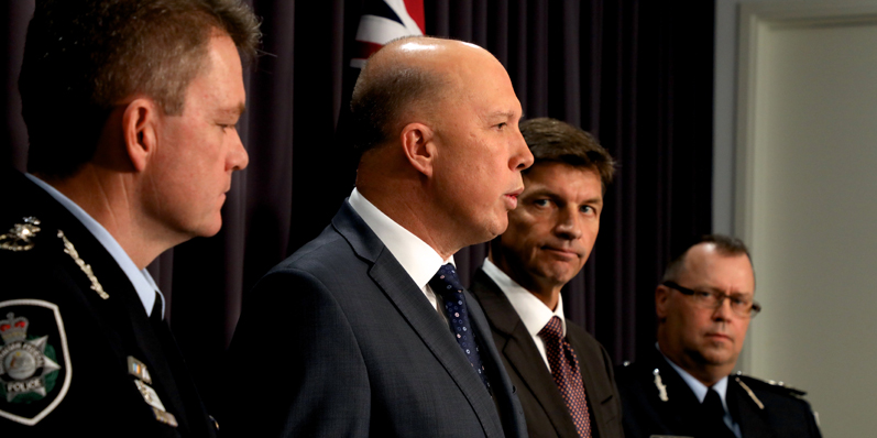 Peter Dutton, Minister for Home Affairs, and Angus Taylor, Minister for Law Enforcement and Cyber Security, announcing the appointment of the Karl Kent OAM as Australia's first Commonwealth Transnational Serious and Organised Crime Coordinator